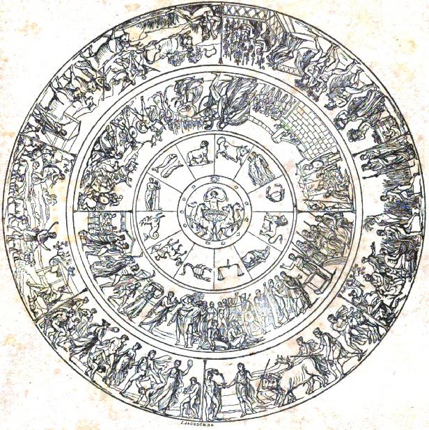 This is an illustration of the 'Shield of Achilles', it was originally published in the September 22, 1832' issue of 'The Penny Magazine of the Society for the Diffusion of Useful Knowledge'.